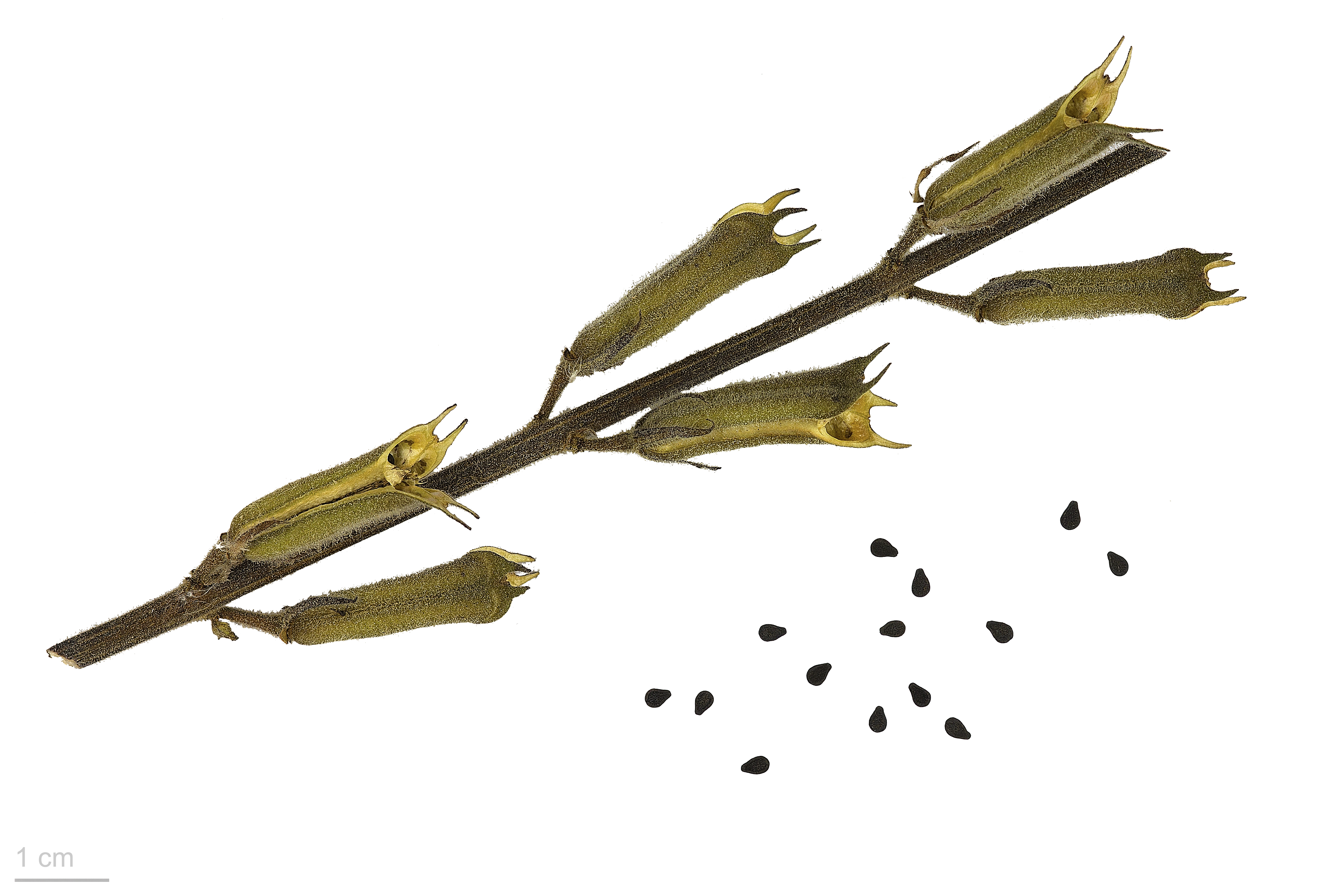 Ceratotheca triloba, , seeds